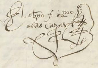 Signature of Bartolomé de las Casas, former bishop of Chiapas, in a letter dated November 1559 in which he donates his manuscript of the History of the Indies to the convent of Saint Gregory in Valladolid, Spain. Preserved at the Biblioteca Nacional de España.